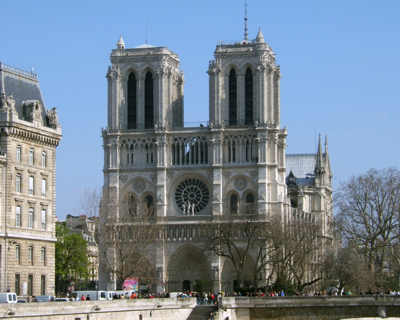 the Notre Dame de Paris: Western Façade, mid-afternoon, April 2007. Photograph by Tom S., while observing and admiring High Gothic in France.